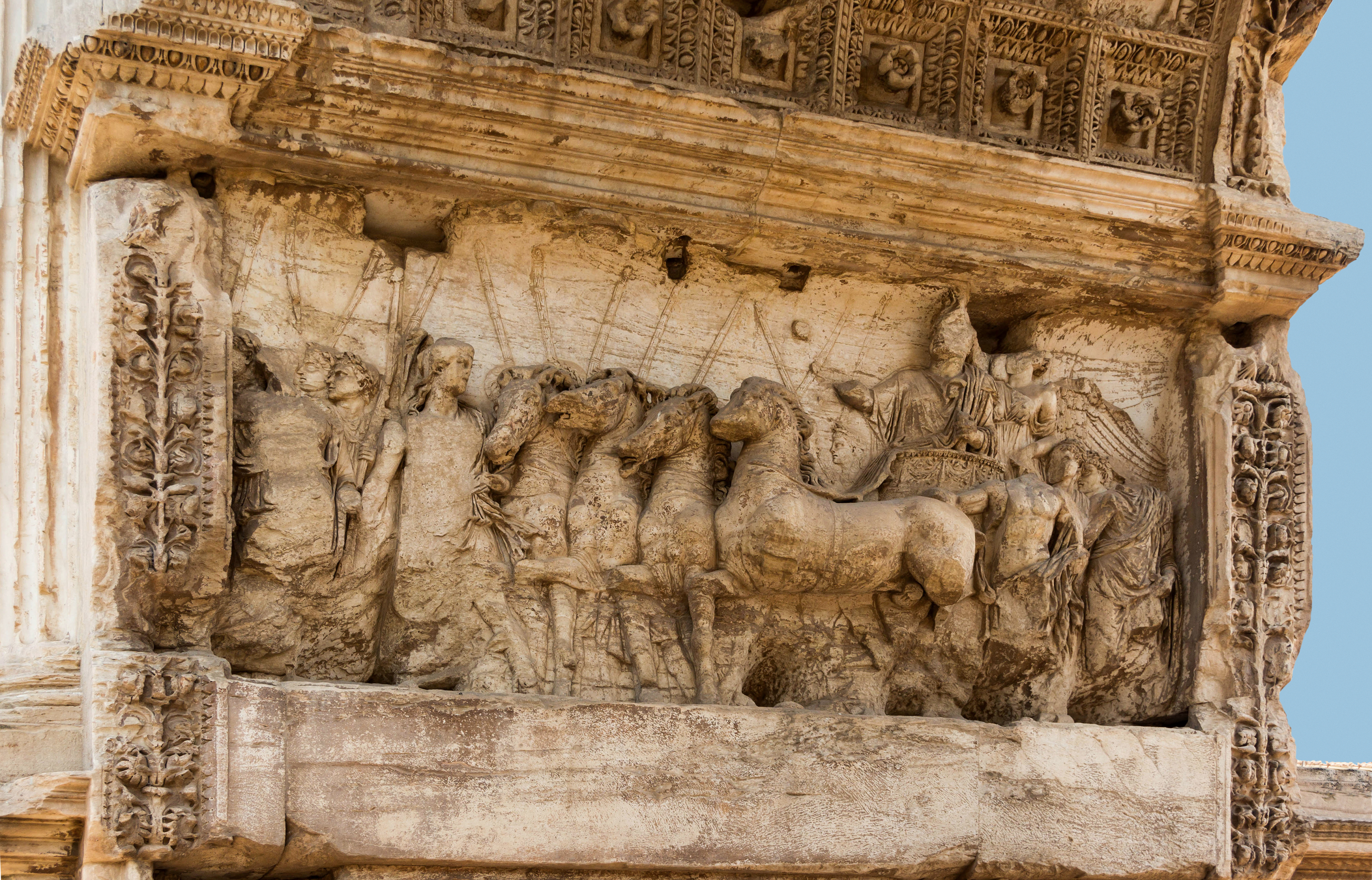 The relief of the imperial triumph, Arch of Titus, Rome, Italy.